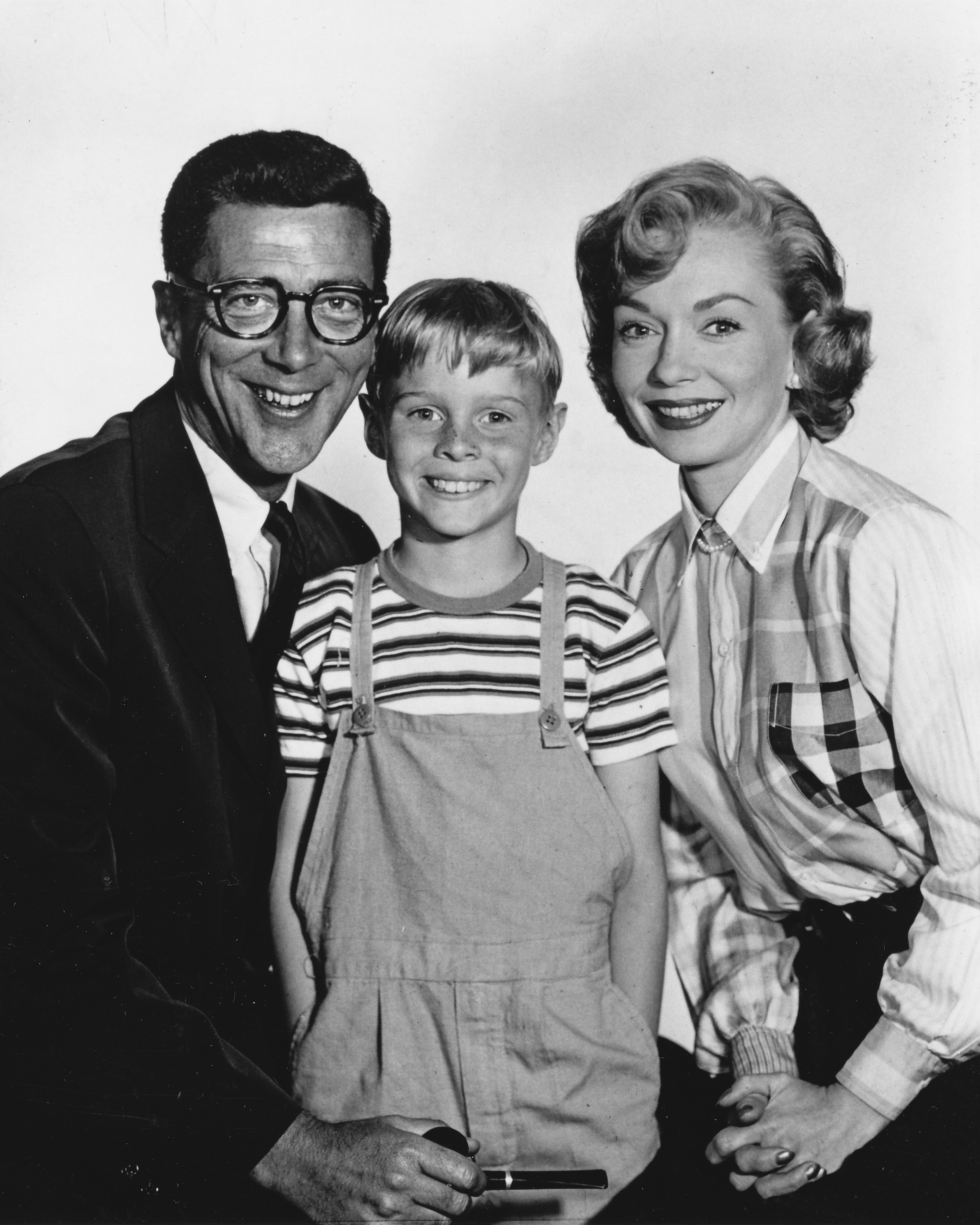 Publicity photo of the stars of the CBS comedy television series Dennis the Menace; (L–R) Herbert Anderson, Jay North and Gloria Henry, circa 1959.